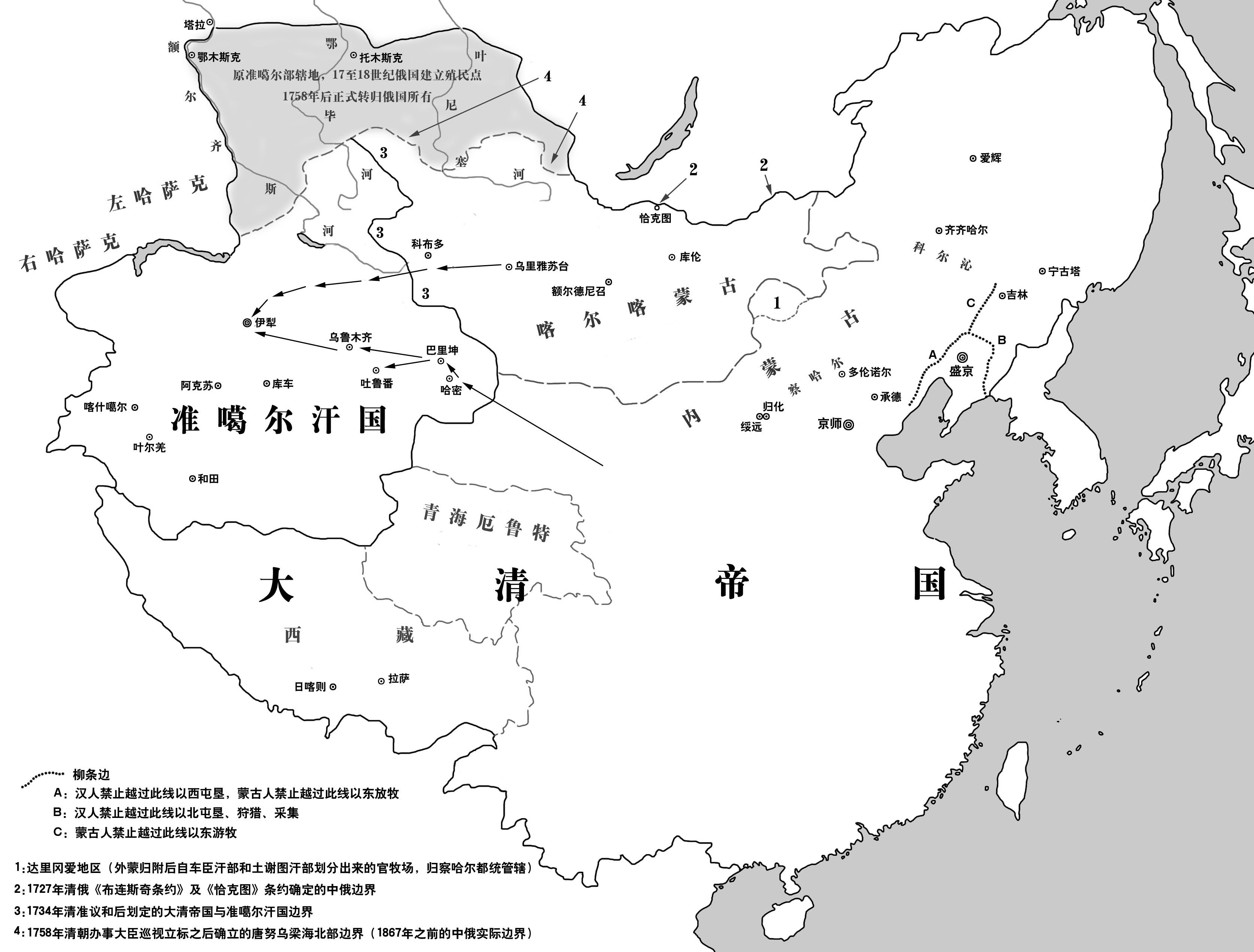 Qing Dynasty and Dzungaria, 1757